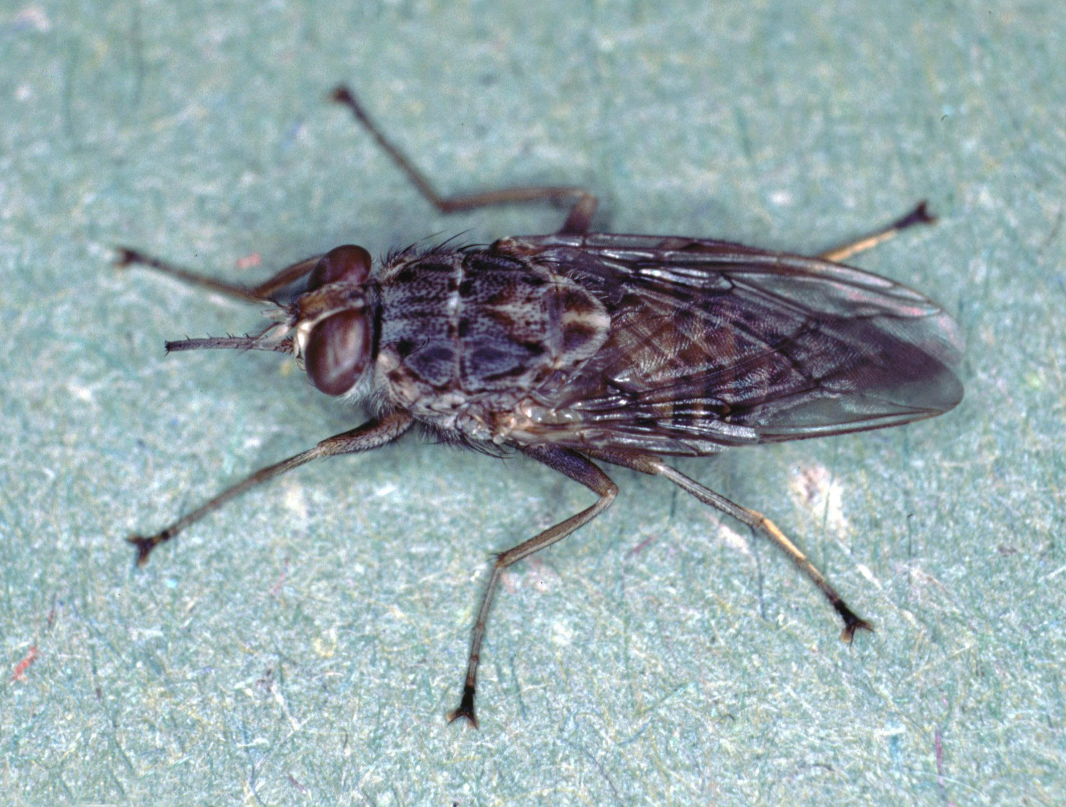 Adult Glossina morsitans, transmitter of Trypanosoma protozoa in Africa.